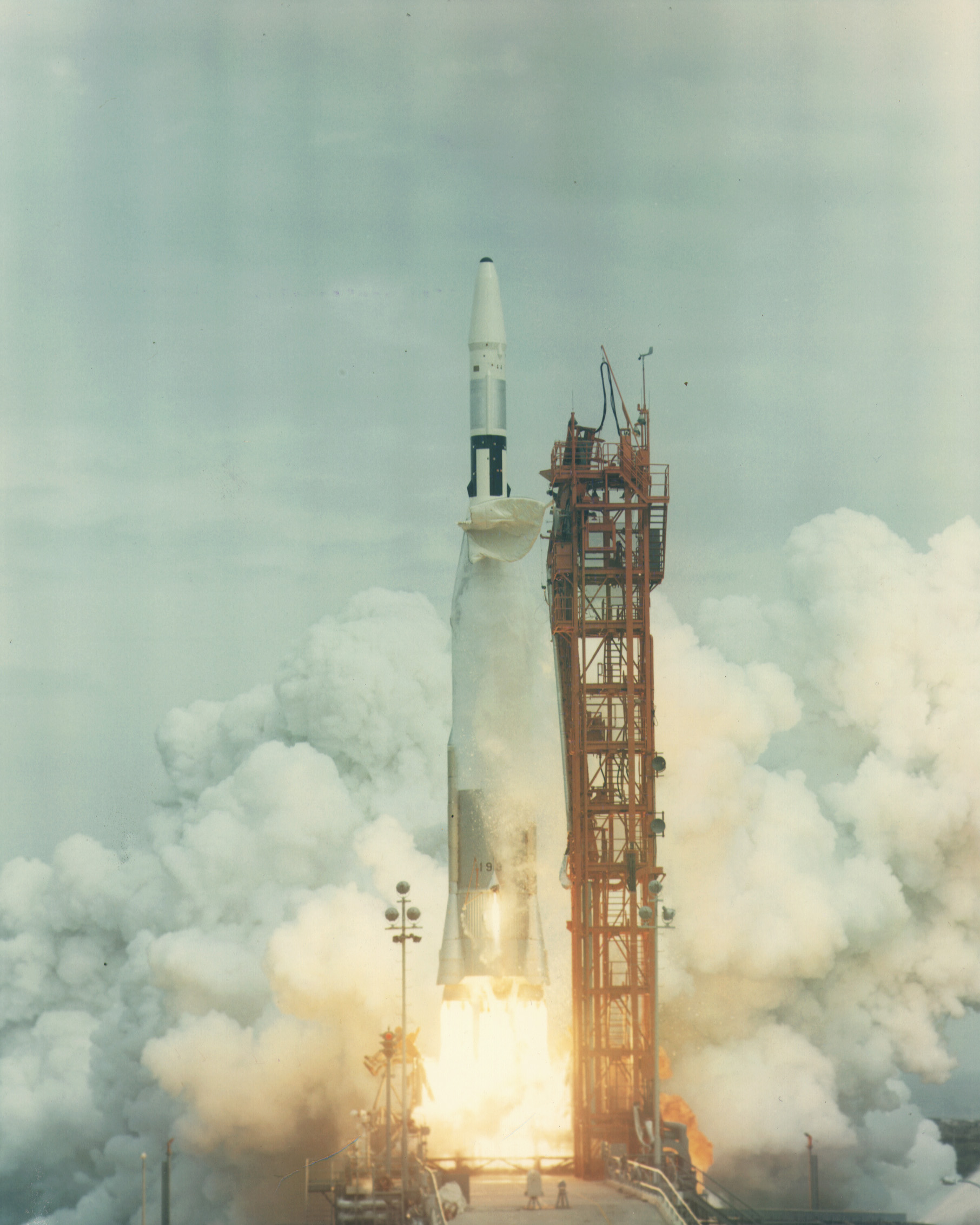 RANGER 6 lifts off from Launch Complex 12 aboard an Atlas Agena launch vehicle.